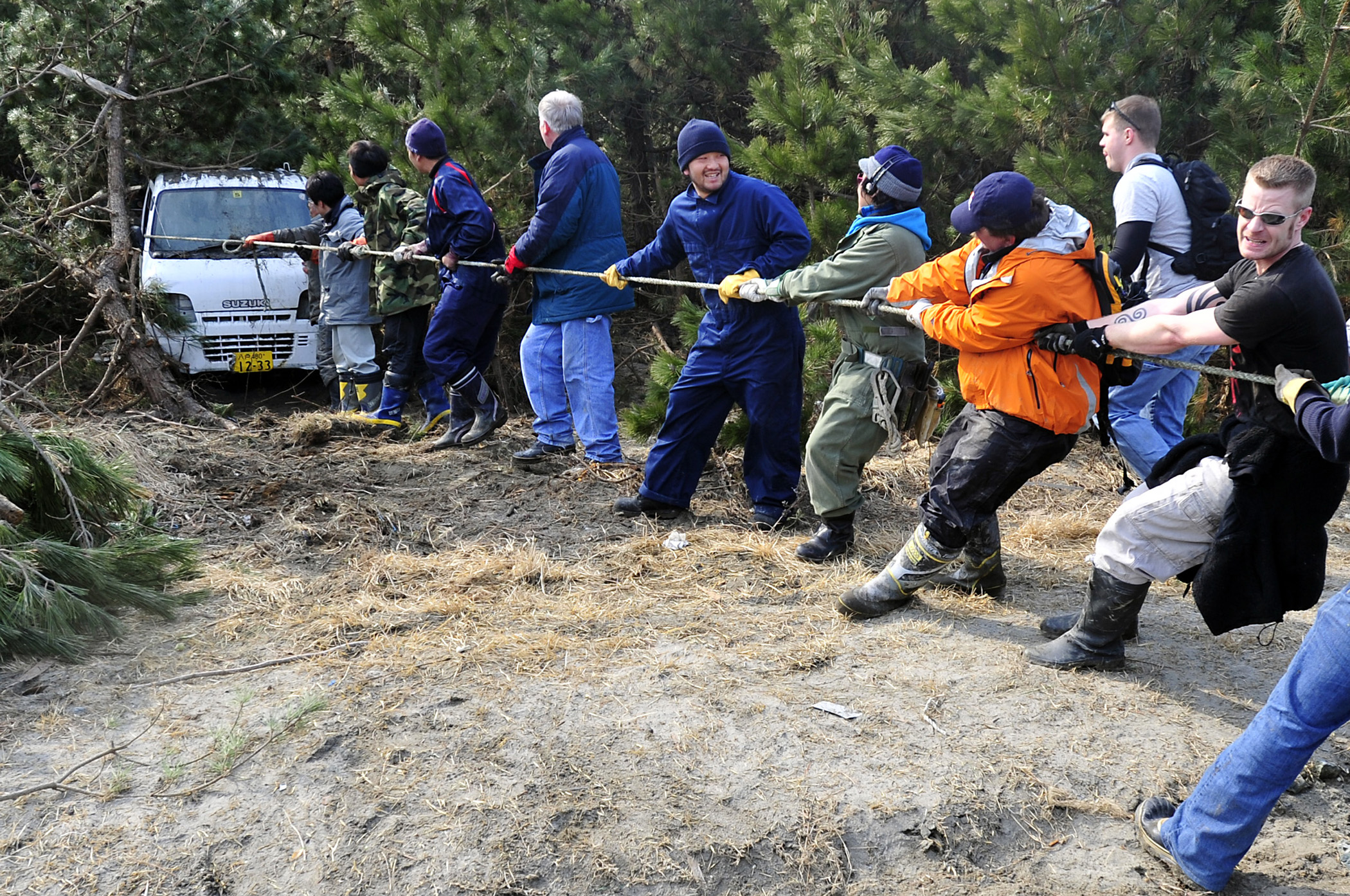 Civilians work with Misawa AB personnel to recover a vehicle following the earthquake and tsunami